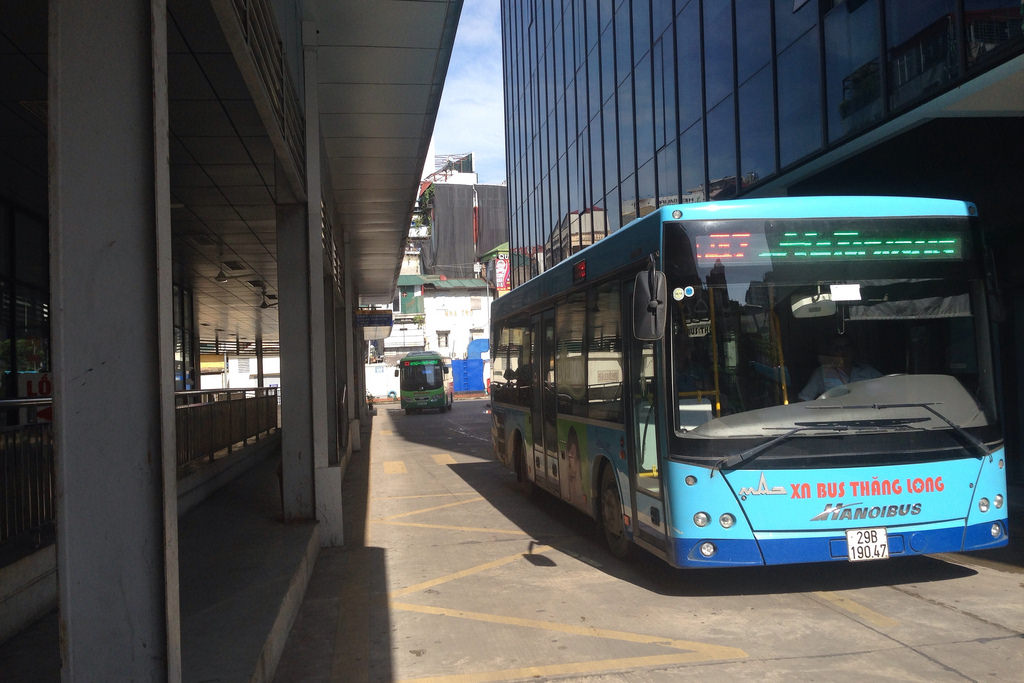 MAZ 206 bus arriving Kim Mã terminus